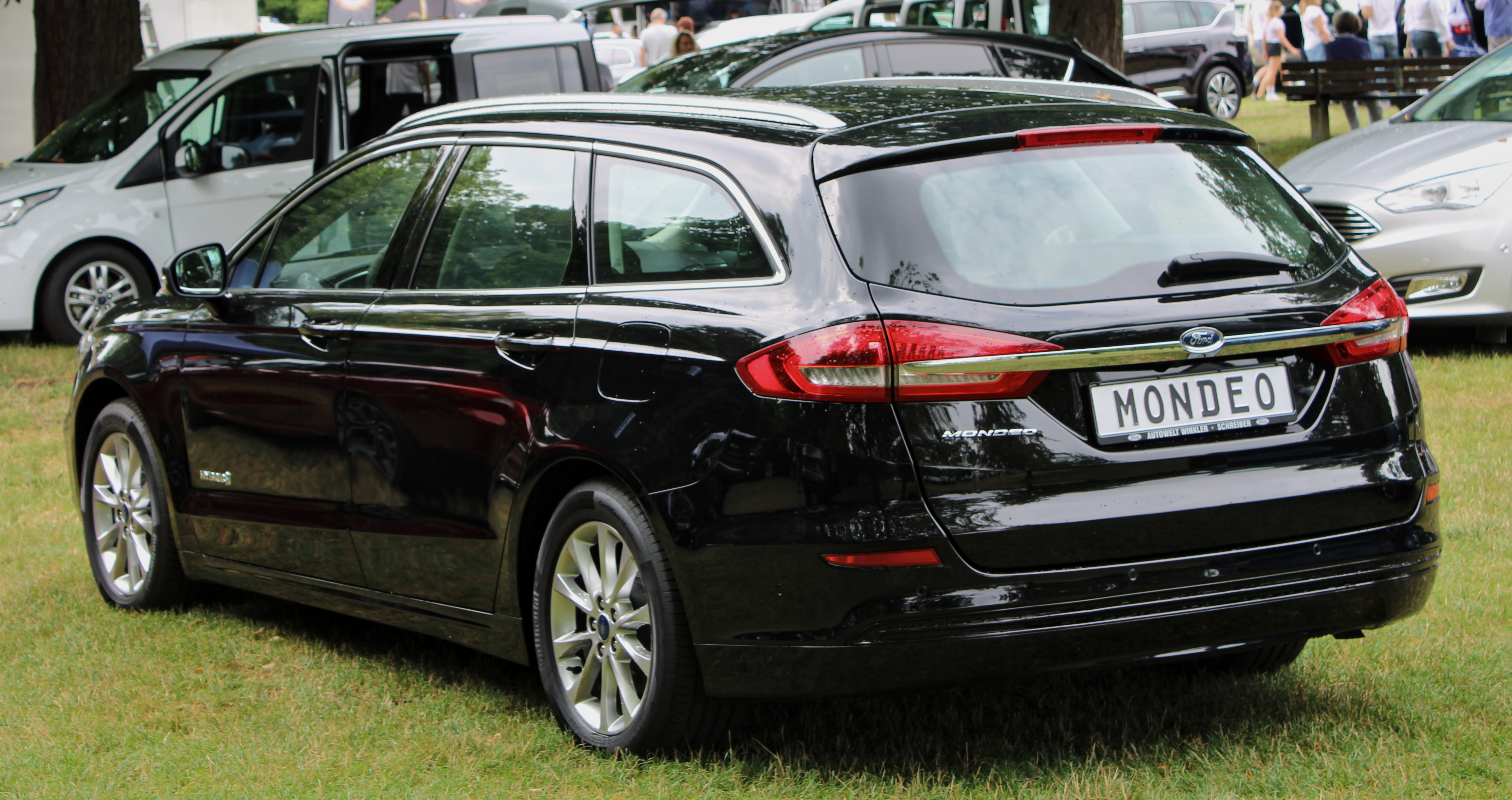 Ford Mondeo Turnier Hybrid at Schloss Monrepos 2019